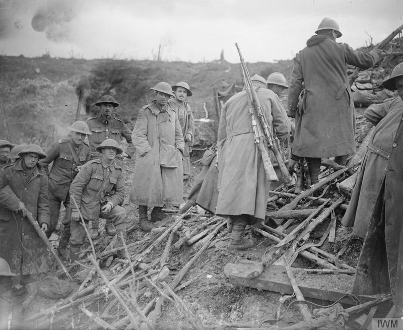 The Battle of the Somme, July-november 1916 Battle of the Ancre. French and British soldiers salvaging German rifles at St. Pierre-Divion, captured on 13th November 1916.